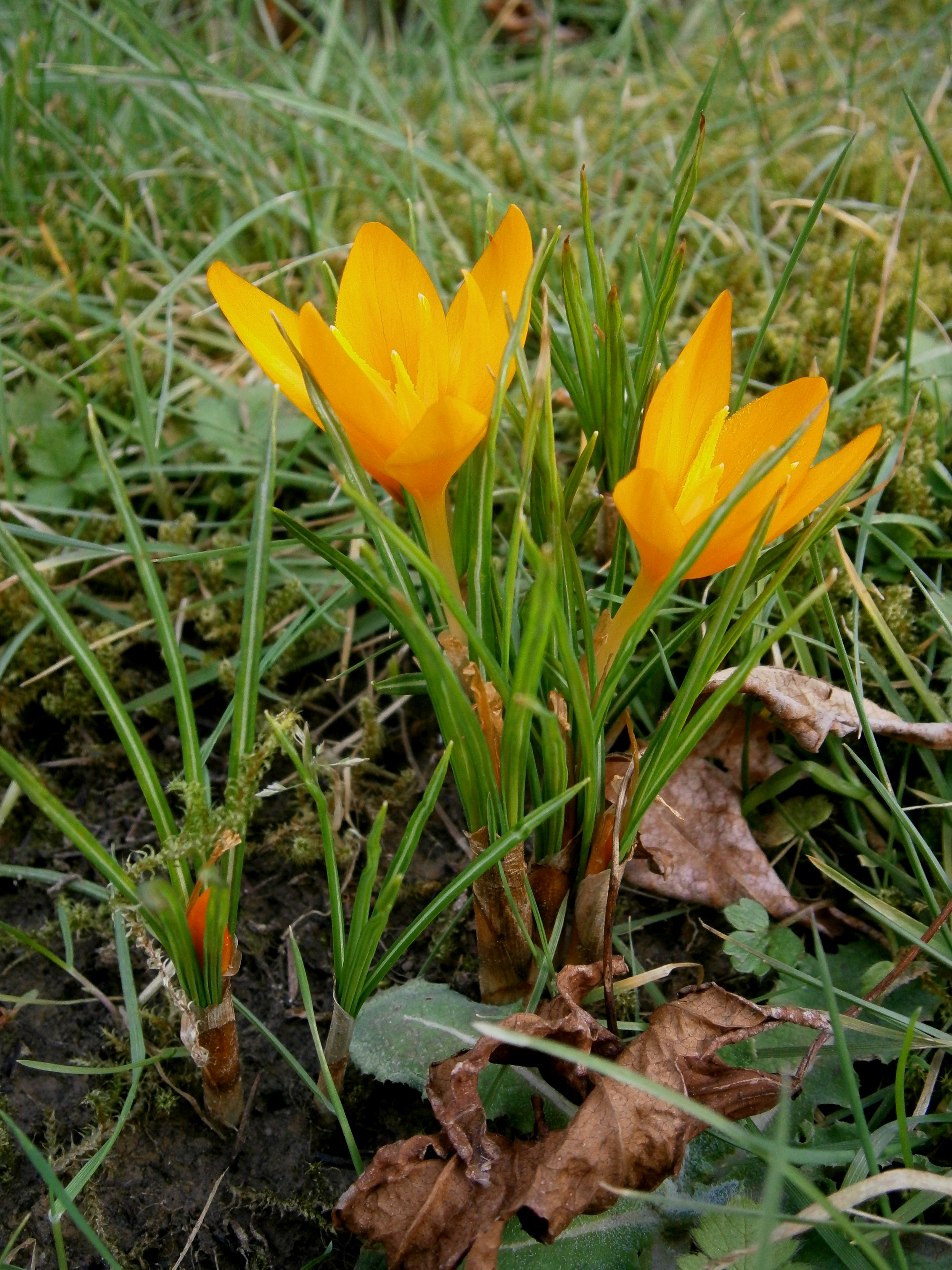 Crocus flavus subsp. flavus